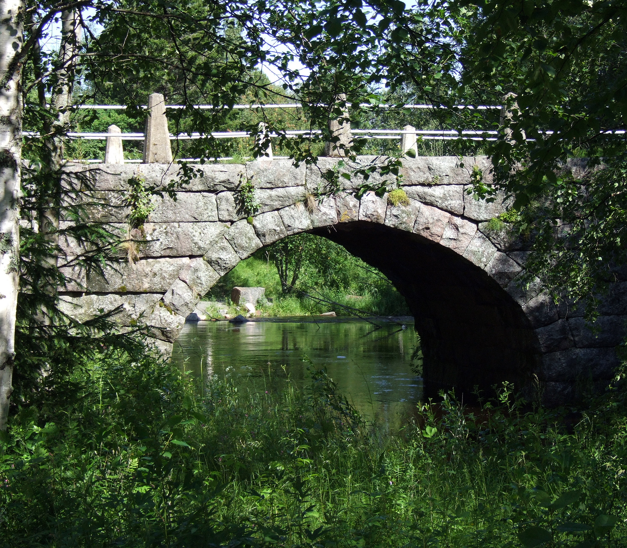 The Pattijoki bridge is an old stone arch bridge in Pattijoki village in Finland. The bridge was built in 1896-97.